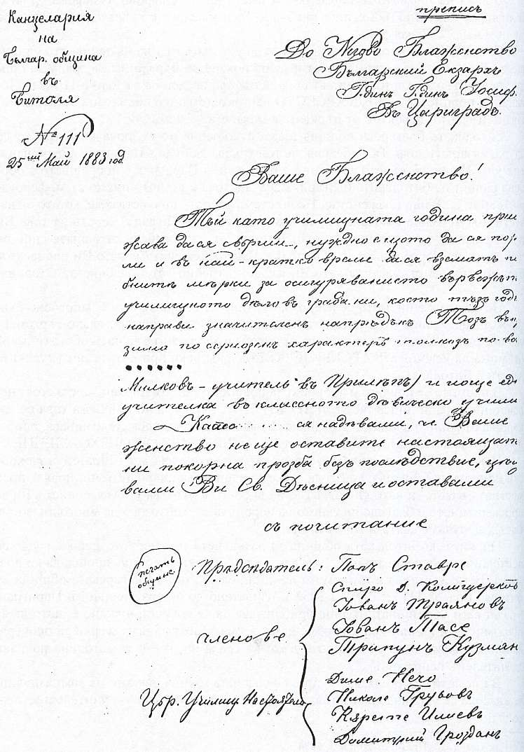 Letter from the Bitolya Bulgarian Municipality to Exarch Joseph 25 May 1883